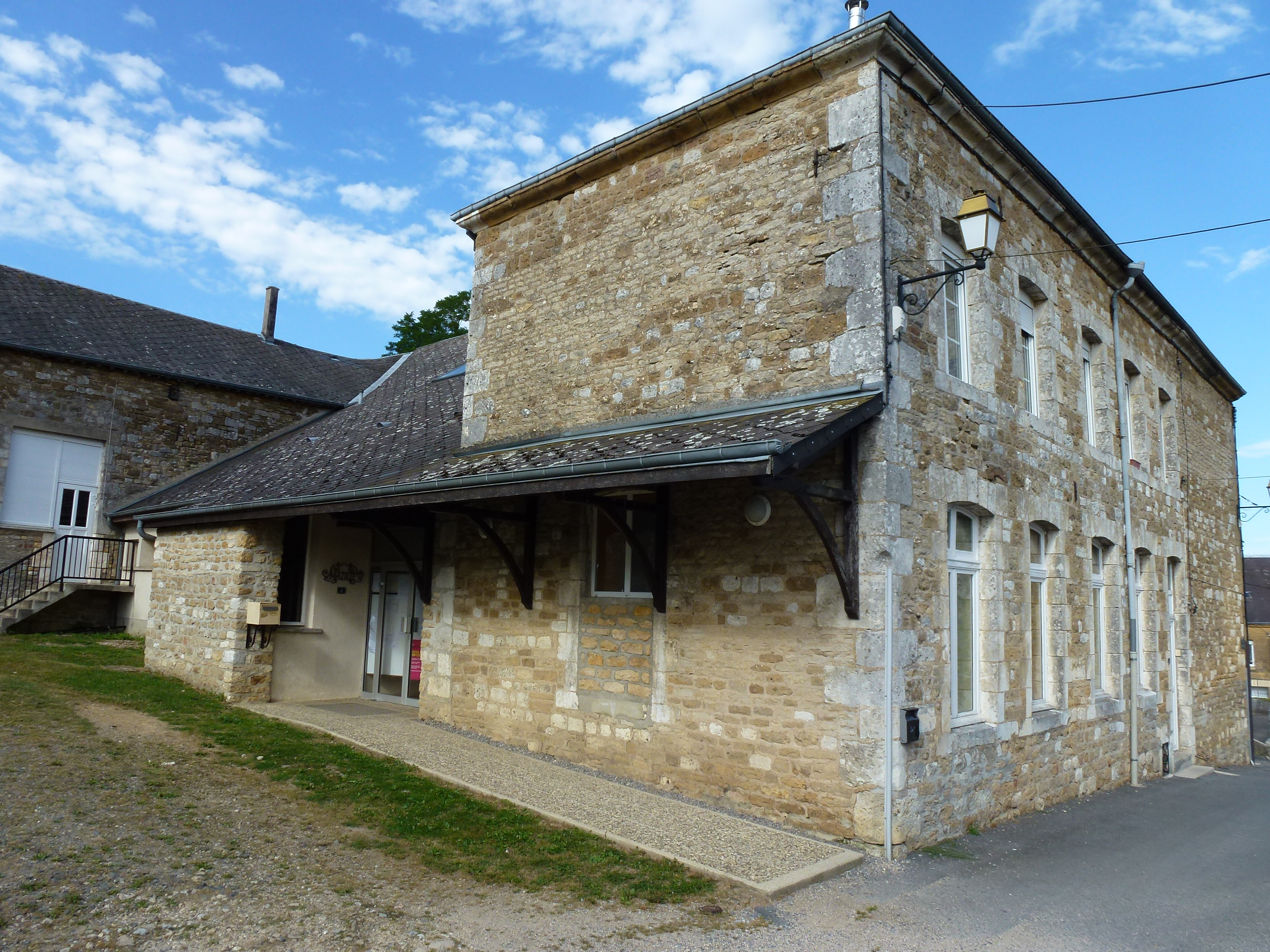 Aubigny-les-Pothées (Ardennes) mairie